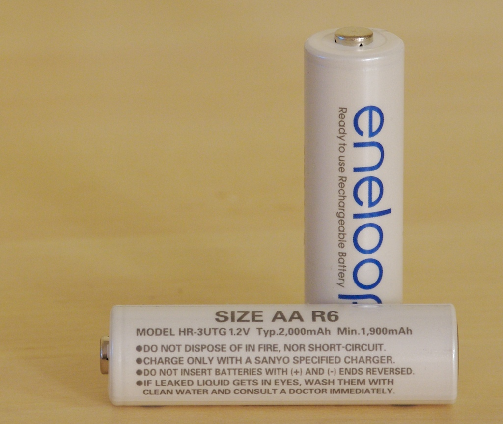 Eneloop NiMH AA batteries. Good Design Award 2006.